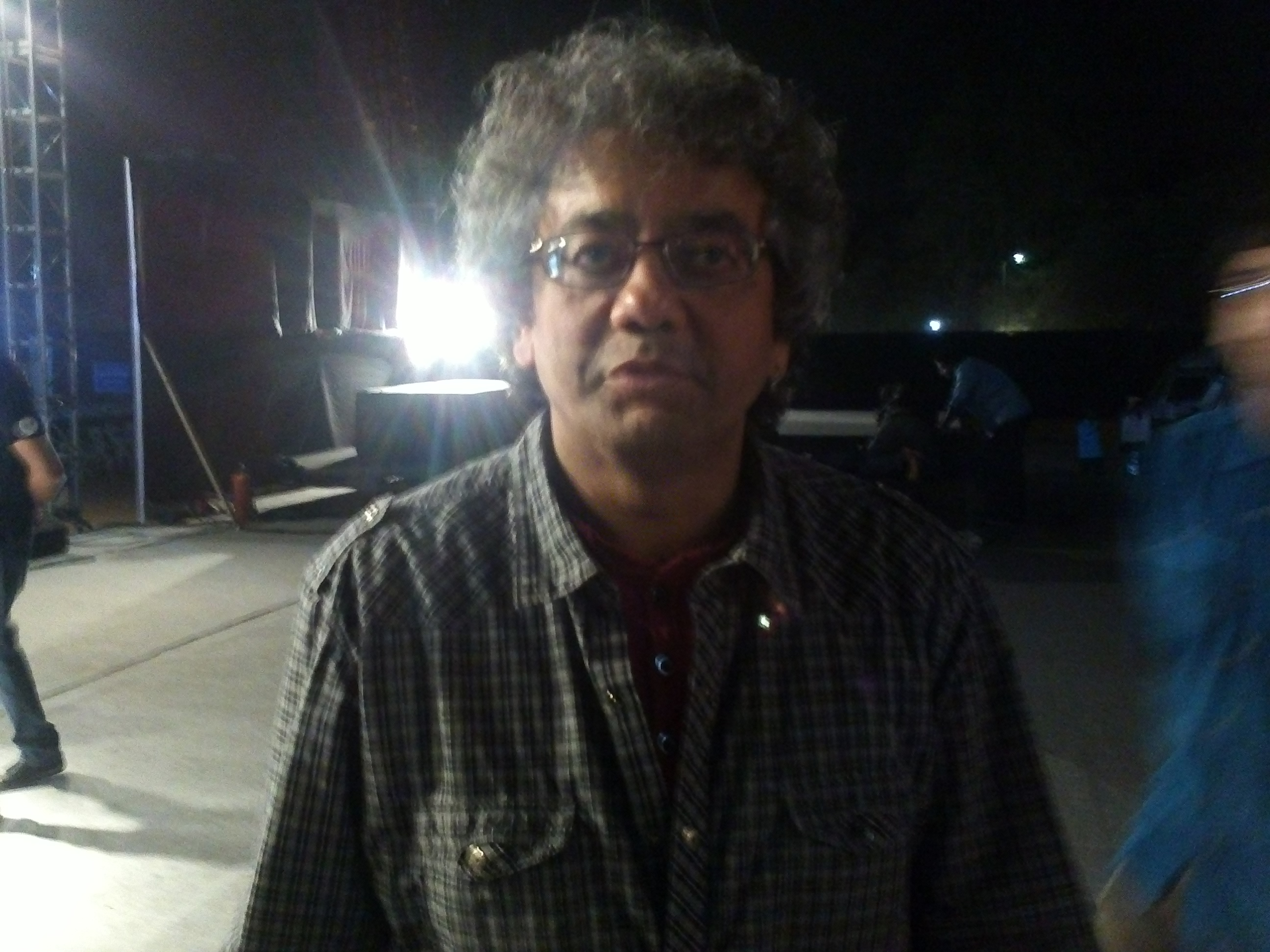 This photo was clicked at Dumru The drum festival. In Dec, 2012.